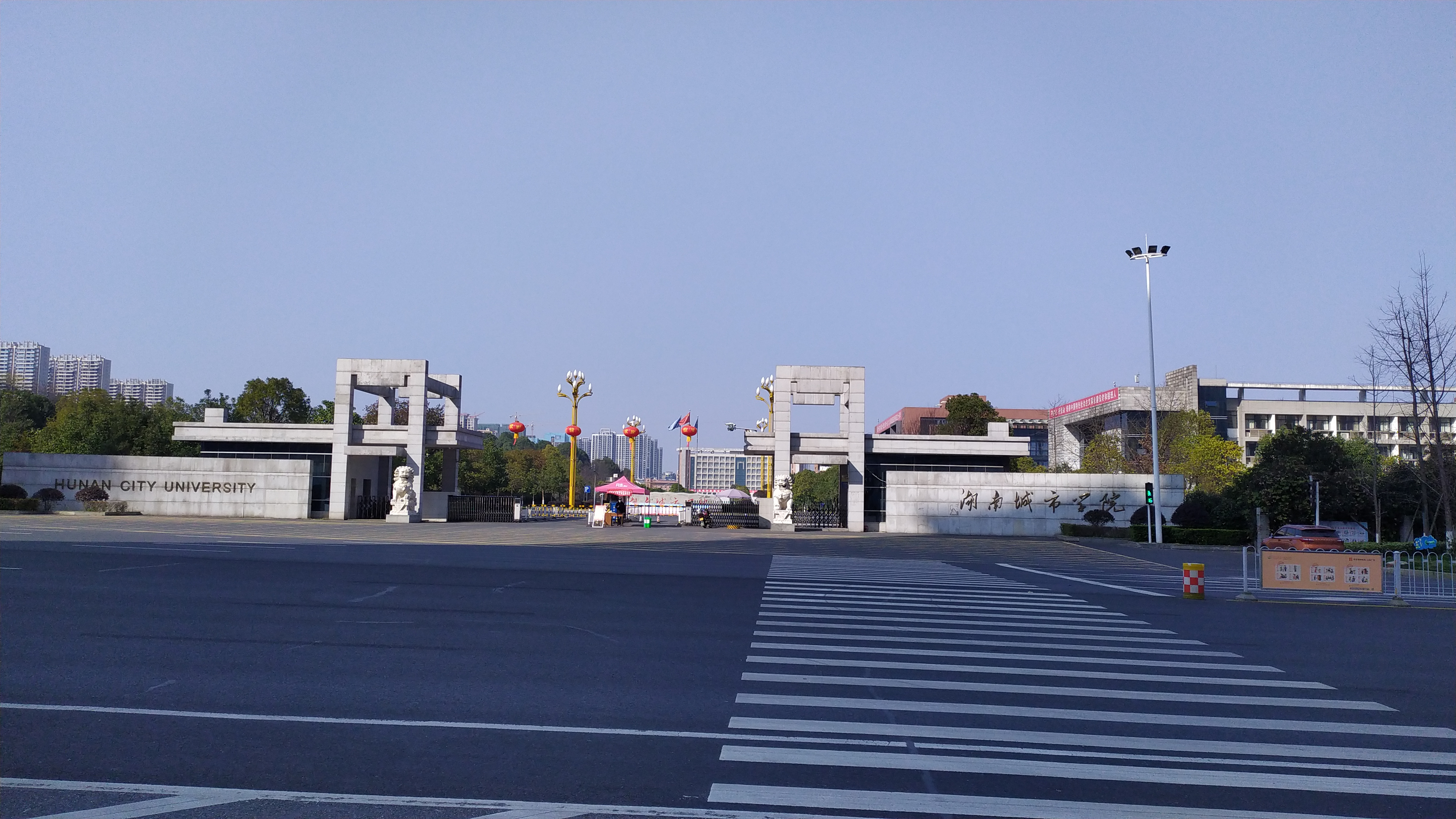 The school gate of School gate of Hunan City University. Hunan City University is a university located in Yiyang, Hunan, China.